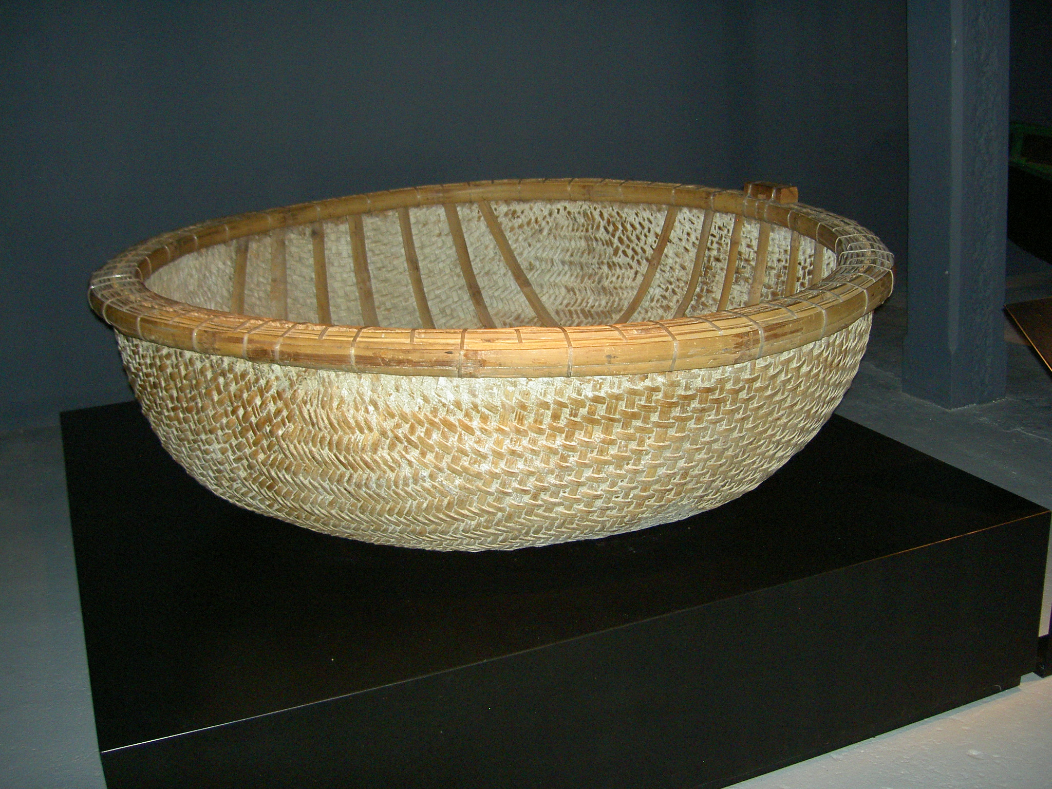 Basket boat from Vietnam. Made with bamboos (Port-musée de Douarnenez).